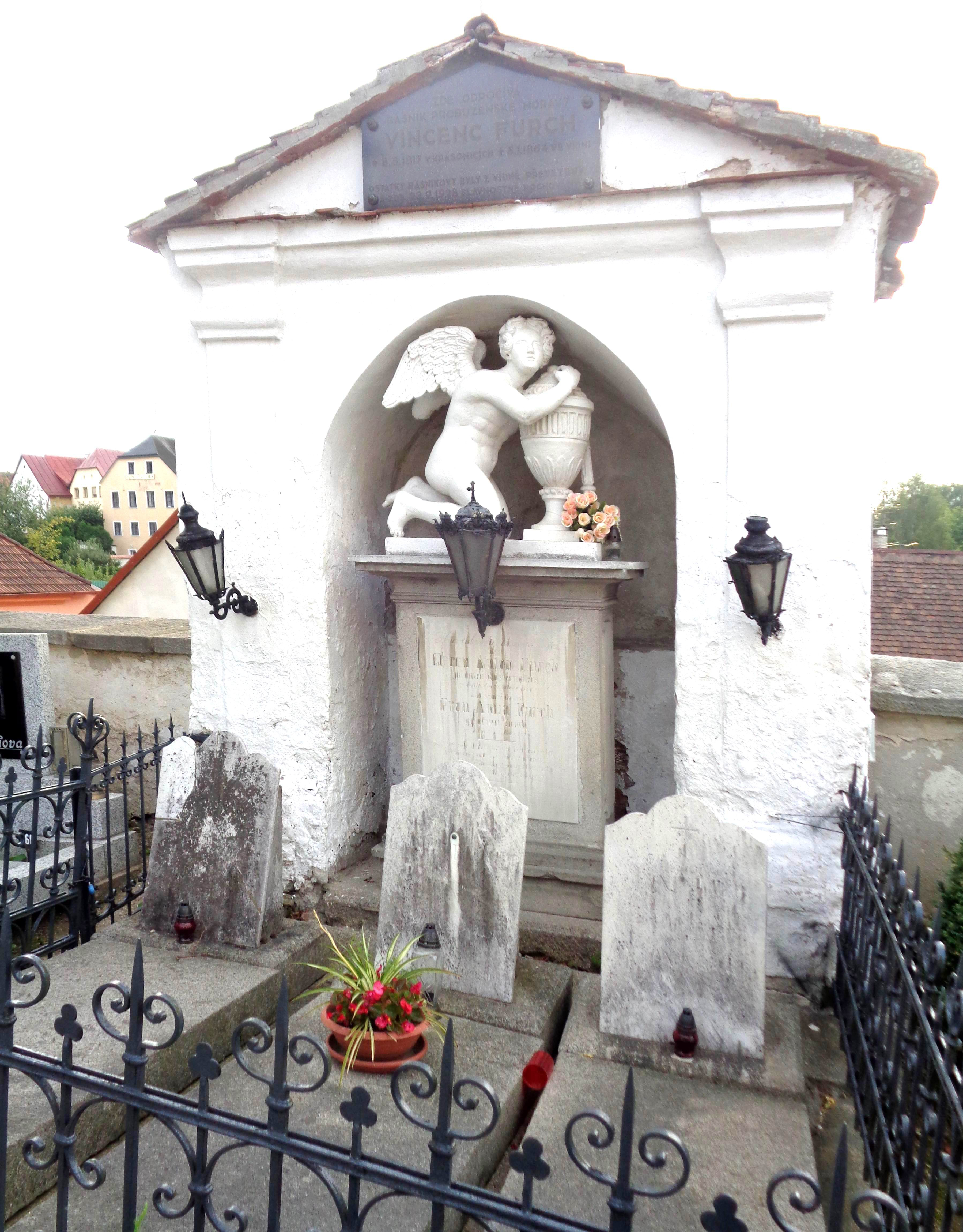 Vincenc Furch (grave in Telč)